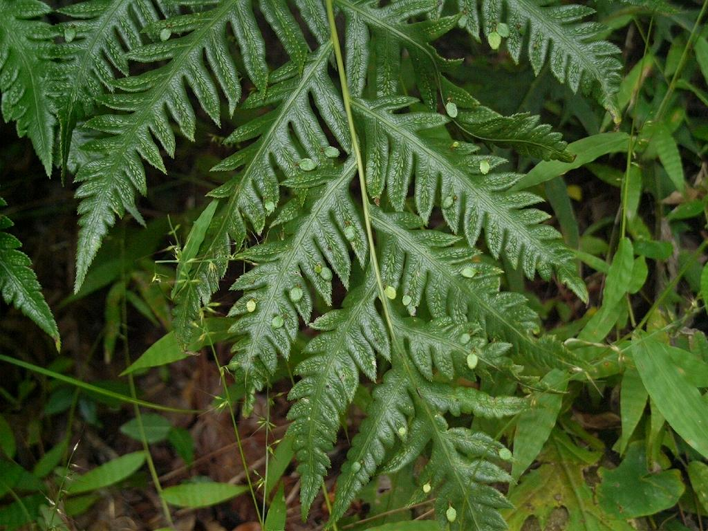 Woodwardia orientalis (コモチシダ)